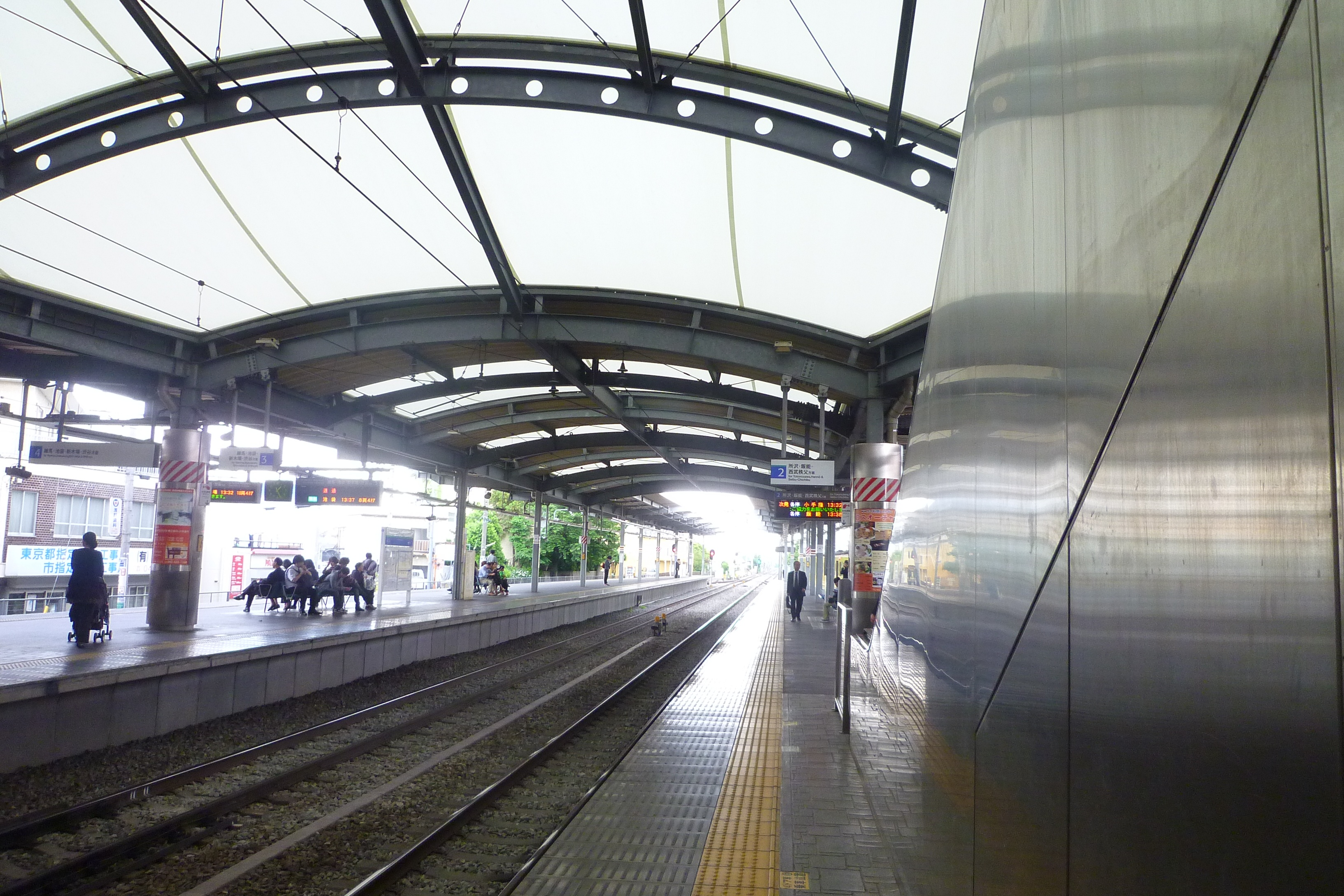 Hibarigaoka Station (Tokyo) platforms (ひばりヶ丘駅のホーム)